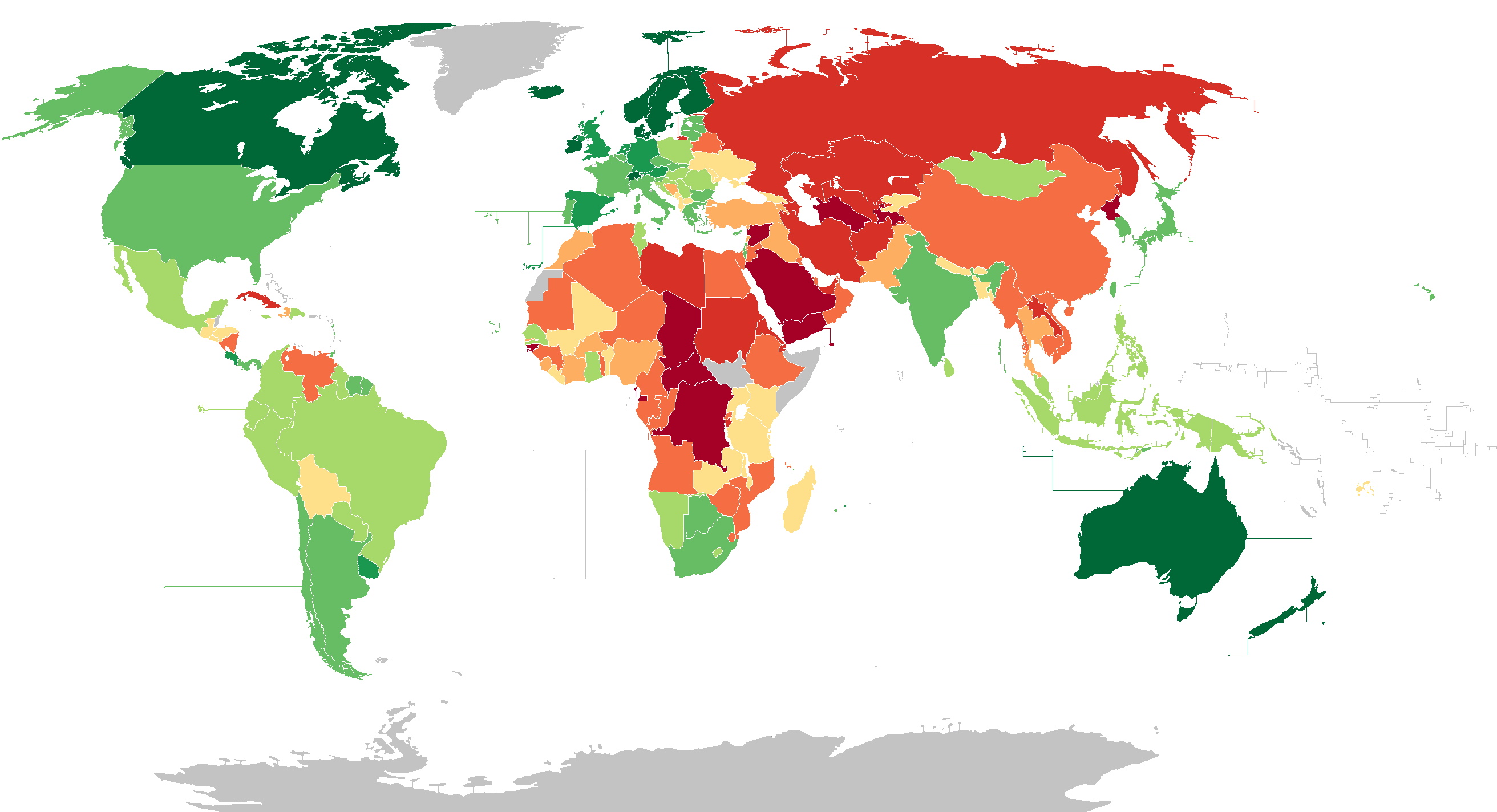 Democracy Index 2018 produced by Economist Intelligence Unit Full democracies 9.01–10 8.01–9 Flawed democracies 7.01–8 6.01–7 Hybrid regimes 5.01–6 4.01–5 Authoritarian regimes 3.01–4 2.01–3 0–2